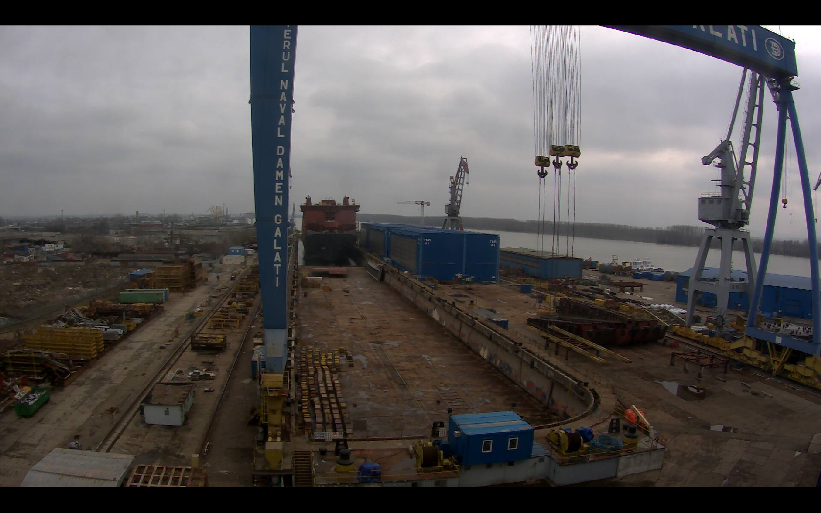 View of the shipyard